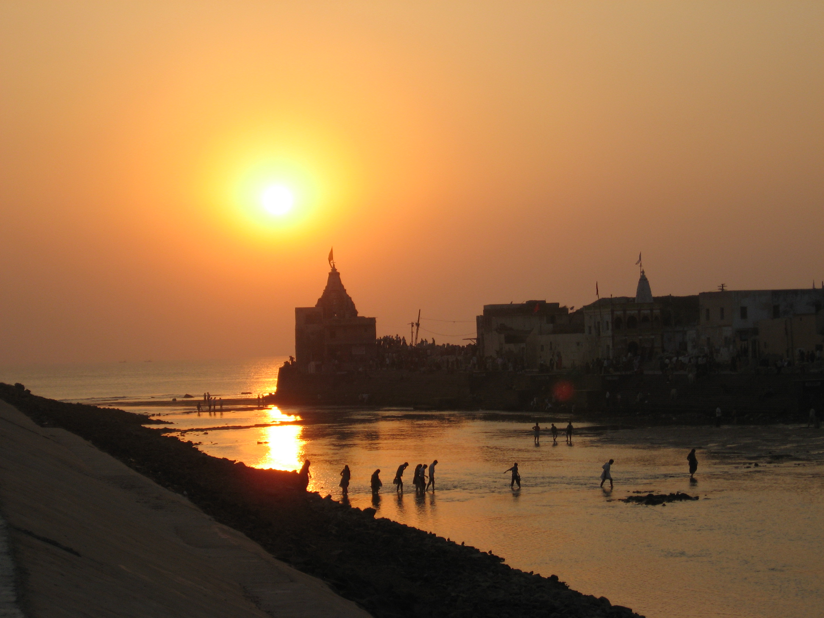 sunset at dwarka...